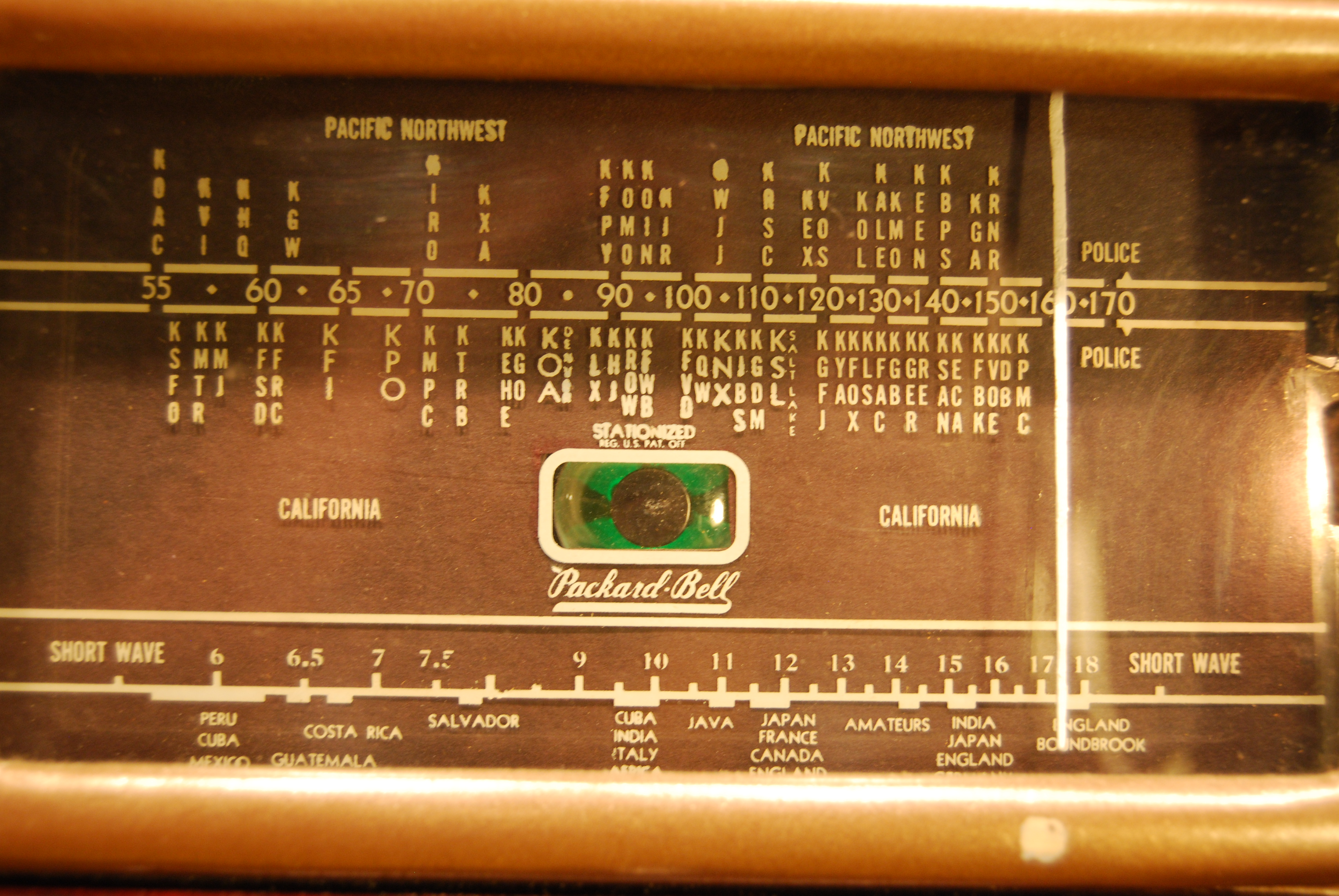 Packard Bell was a weat of the Rocky Mountains radio and television manufacturer. Packard Bell stationized theof their dials with west of the rockies US and Canadian Stations, although this dial does not appear to include any Canadian stations.